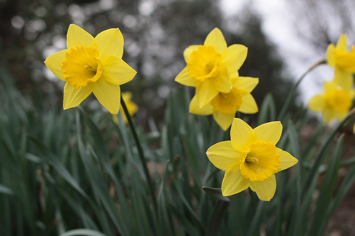 Daffodil Flowers